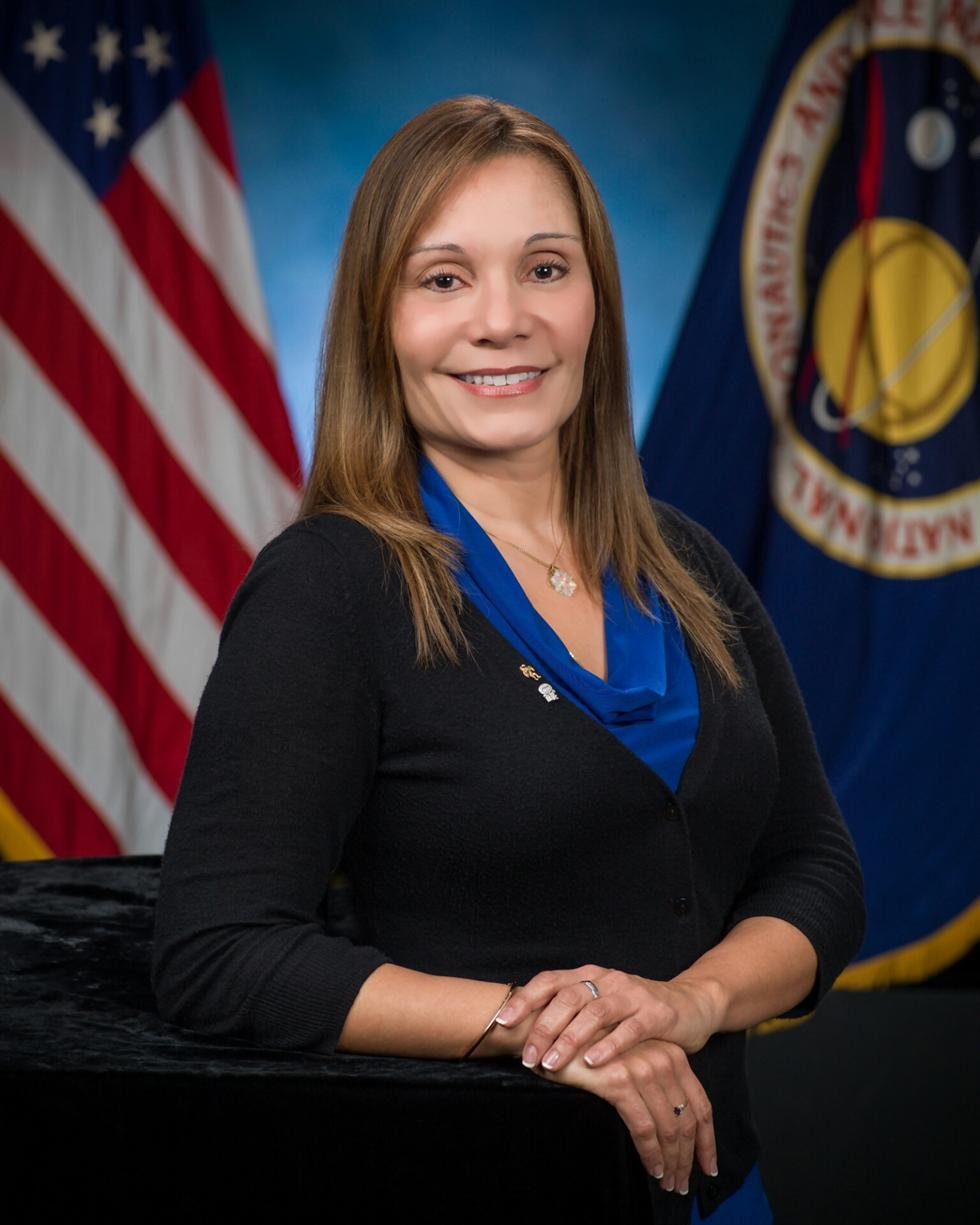 Evelyn Miralles - NASA Principal Engineer and lead innovator in the Virtual Reality (VR) Laboratory and a NASA employee of 23 years